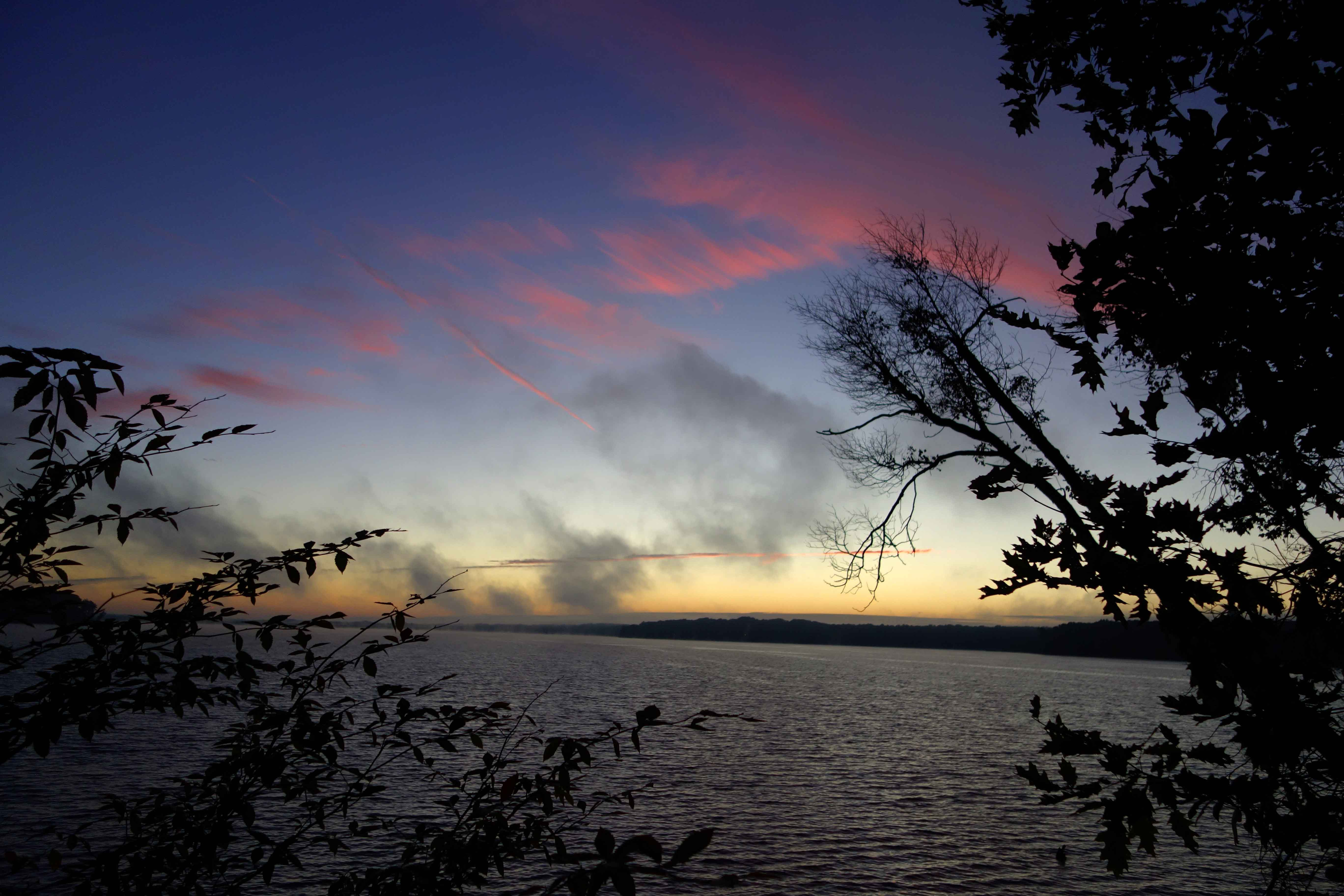 Sunrise at West Branch State Park